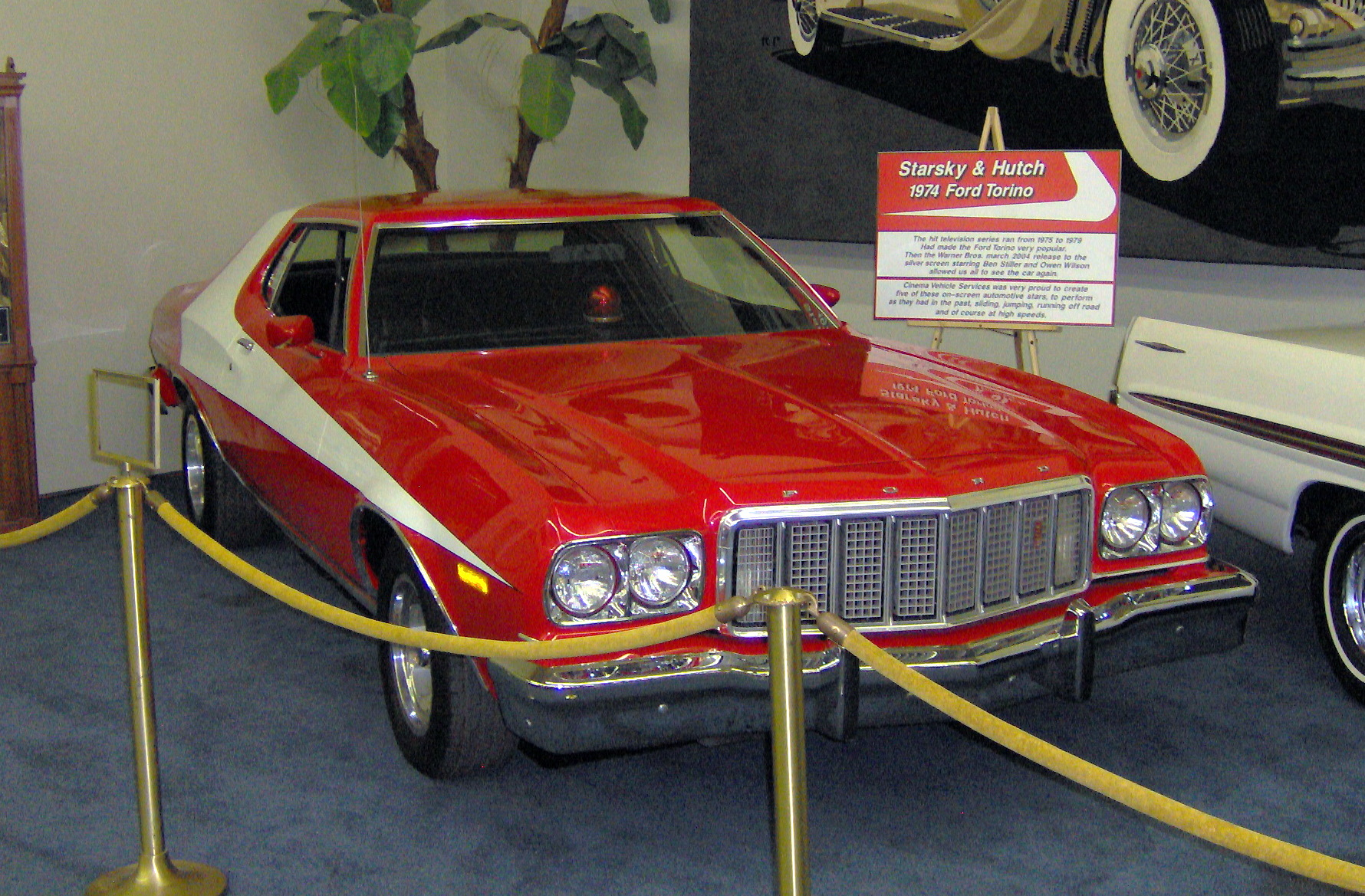 1974 Ford Torino from Starsky & Hutch